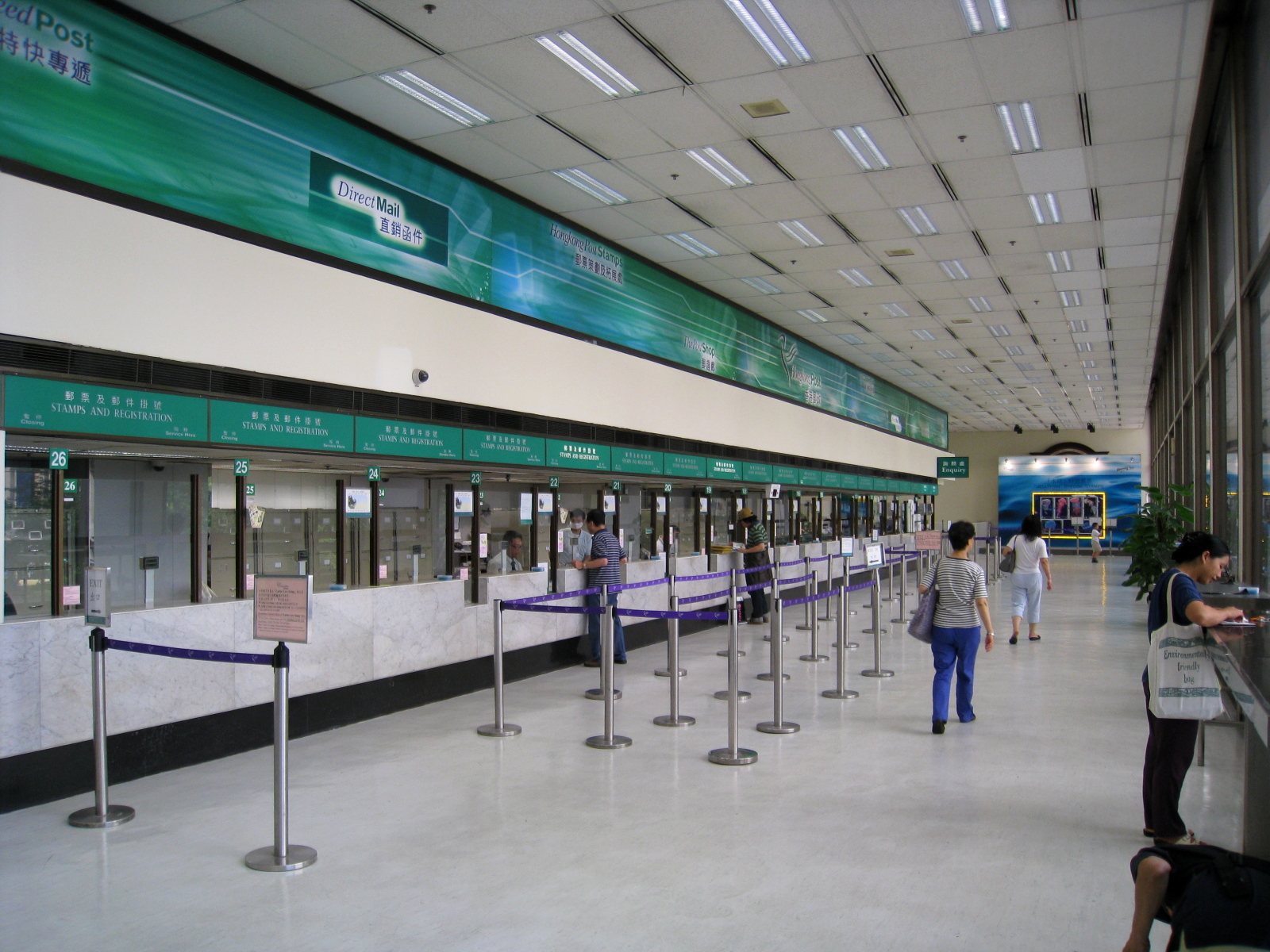 HK General Post Office 1F 香港郵政總局